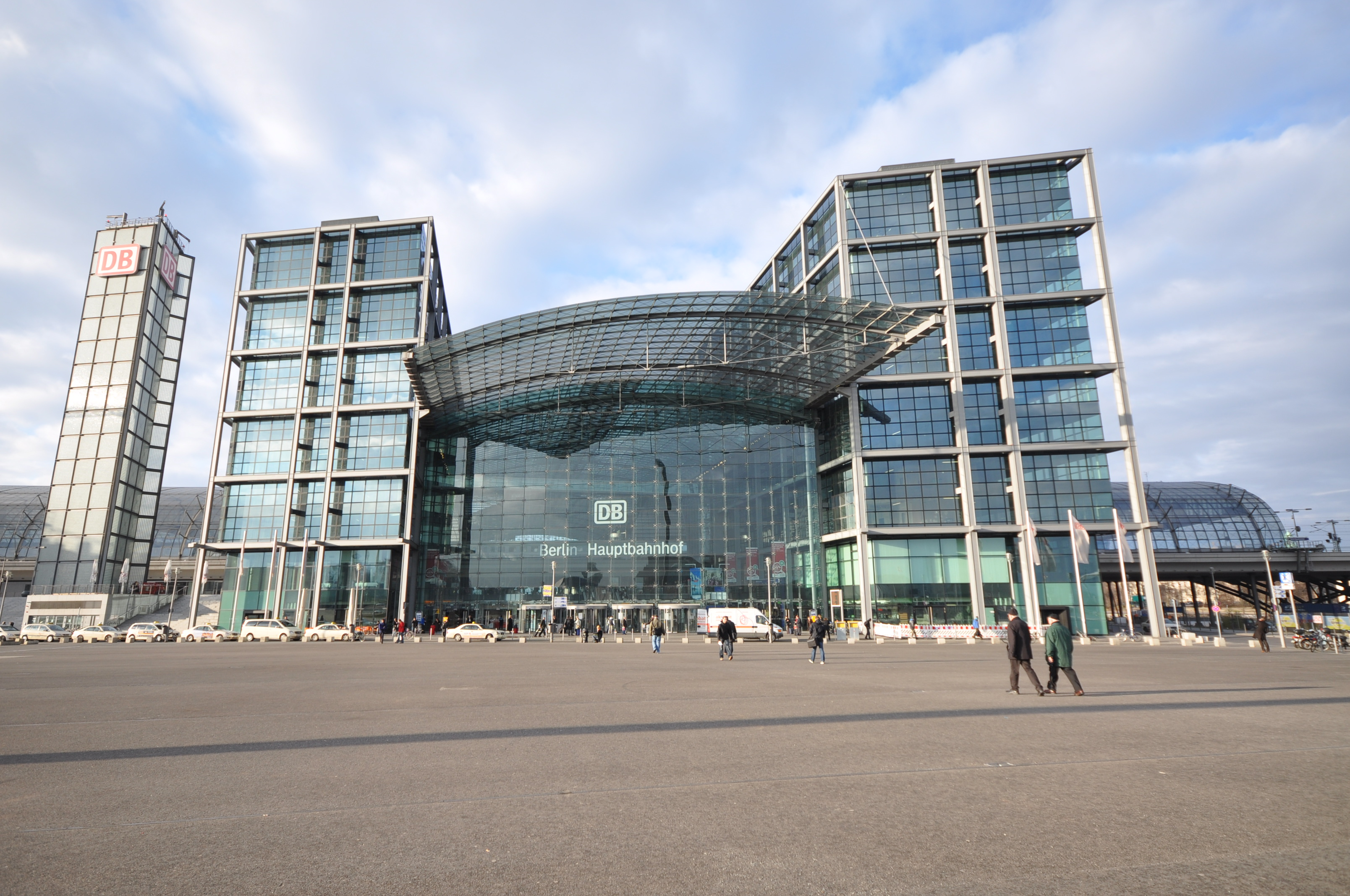 Berlin Hauptbahnhof, or Berlin Central Station, is the main railway station in Berlin, Germany and the largest crossing station in Europe. It began full operation two days after a ceremonial opening on 26 May 2006. It is now Europe's largest two-level railway station. It is located on the site of the historic Lehrter Bahnhof, and until it opened as a main line station, it was a stop on the Berlin S-Bahn suburban railway temporarily named Berlin Hauptbahnhof–Lehrter Bahnhof. The station is operated by DB Station&Service, a subsidiary of Deutsche Bahn AG, and is classified as a Category 1 station (Considered equal to international airports in terms of service, are permanently staffed and carry all sorts of railway-related facilities as well as usually featuring a shopping mall in the station) [Edited from ]